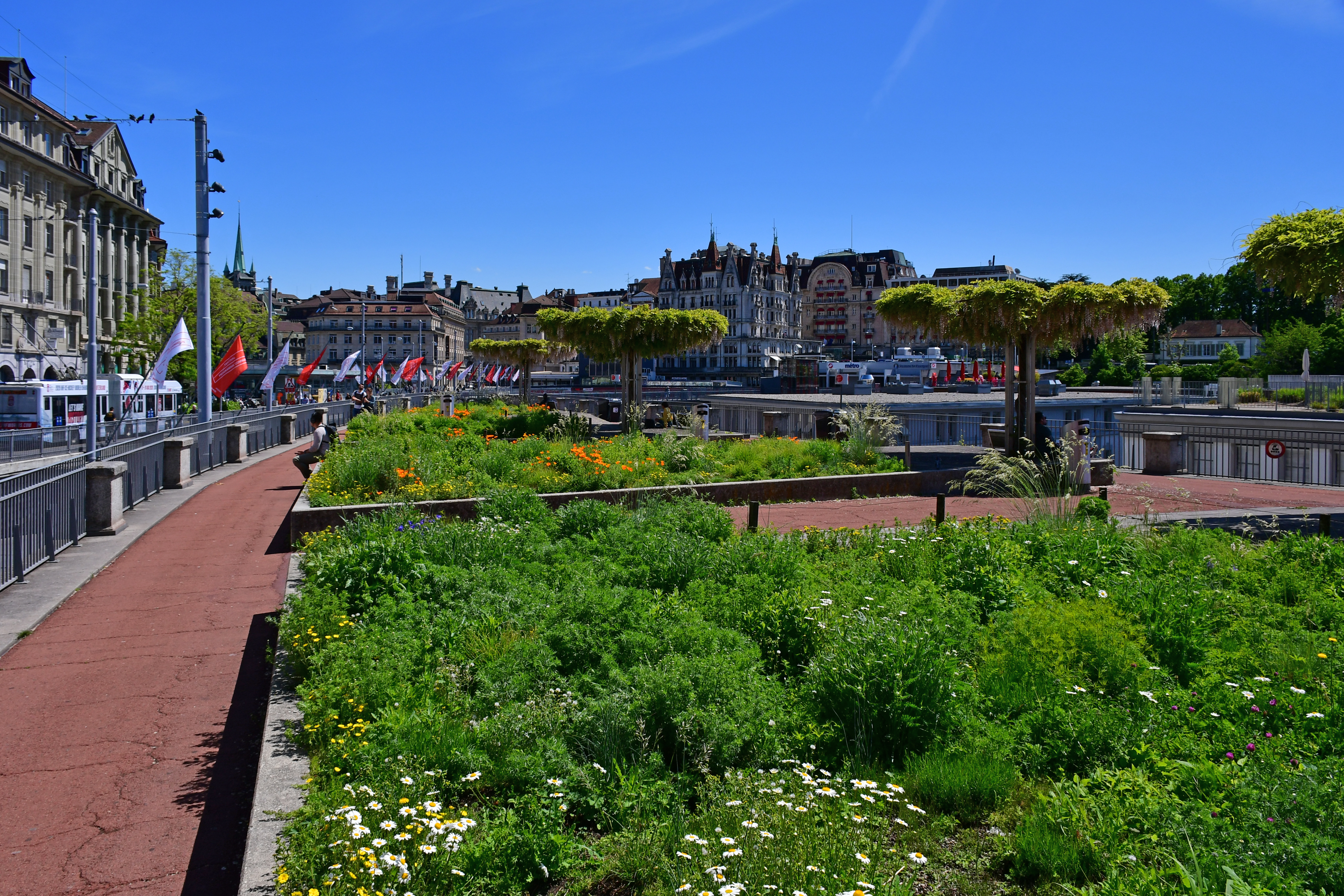 Jean-Monnet terraced garden, on the roof of the former Bel-Air train station, level with Bel-Air Square, in Lausanne (Switzerland).